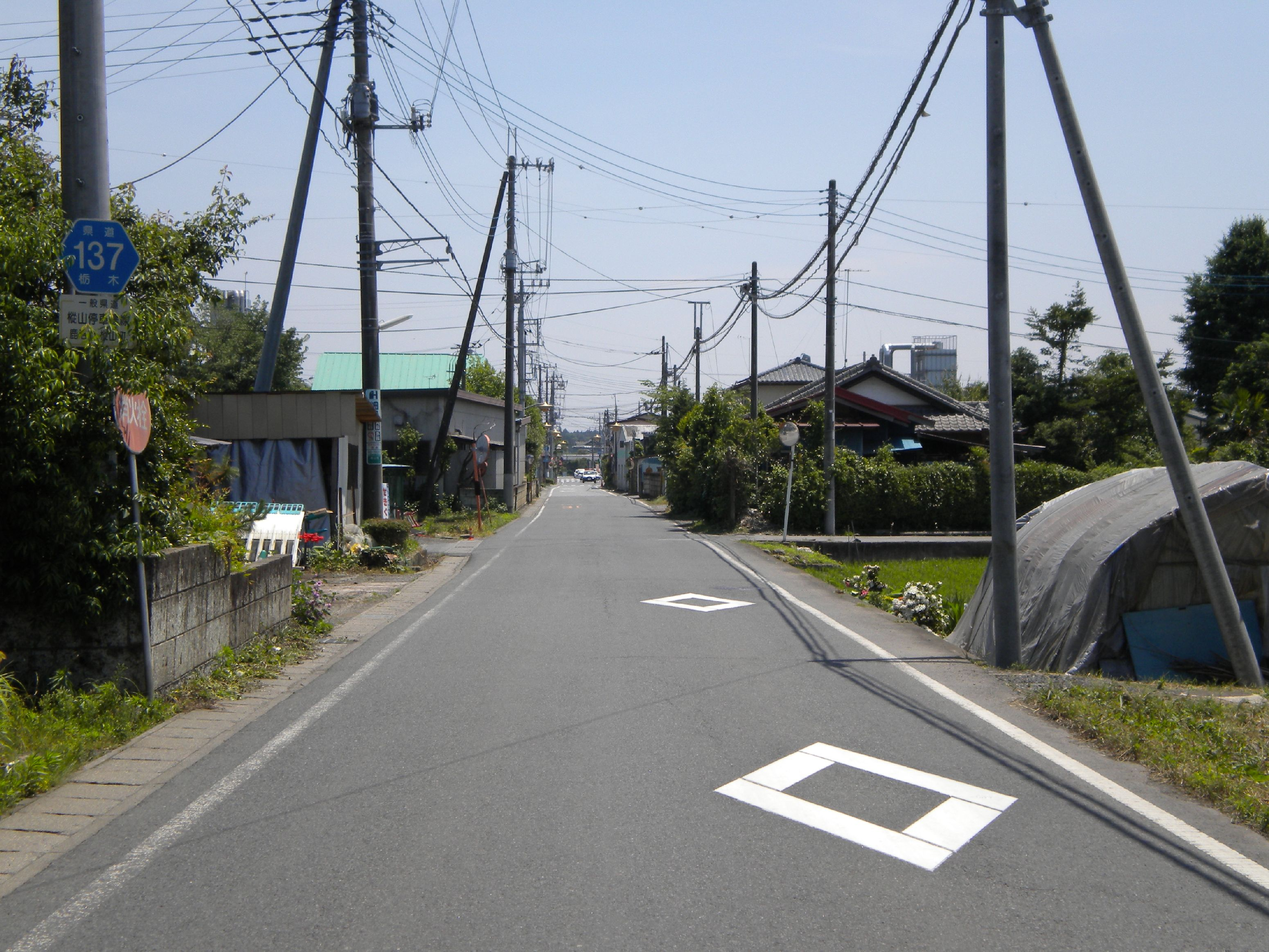 Tochigi prefectural road No.137 on Kanuma city